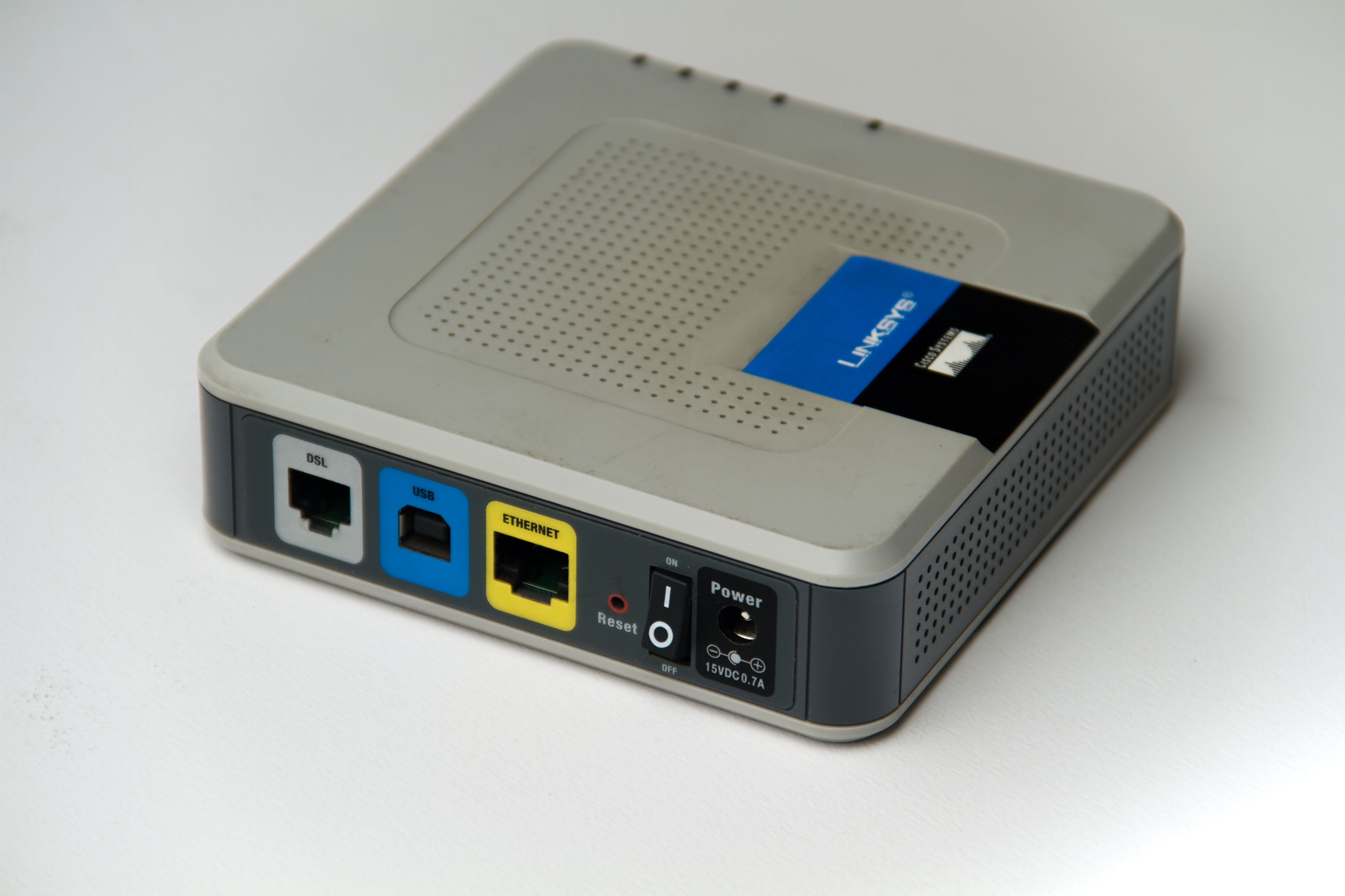 Linksys ADSL Modem AM300 ethernet, USB, and phone line ports